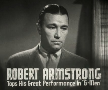 Cropped screenshot of Robert Armstrong (actor) from the film Public Enemy's Wife